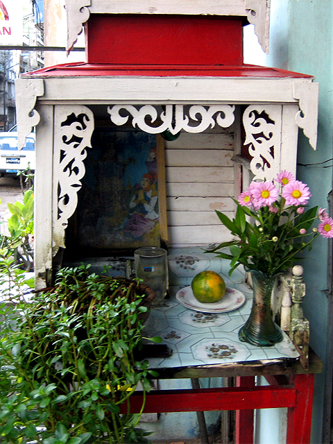 A nat ein (spirit house) in Lanmadaw Township, Downtown Yangon